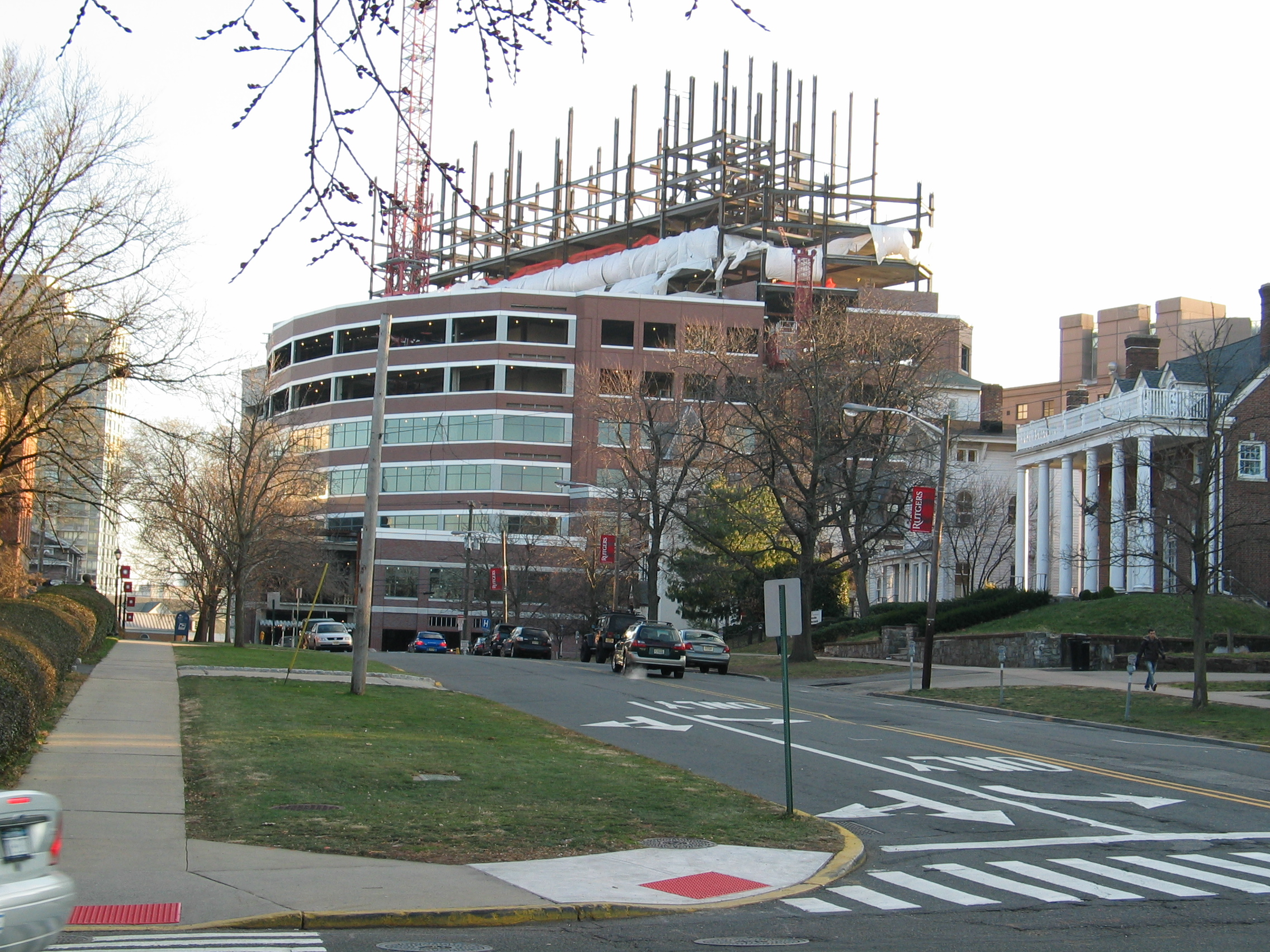 New Brunswick Gateway Project under construction. The project has now been completed.